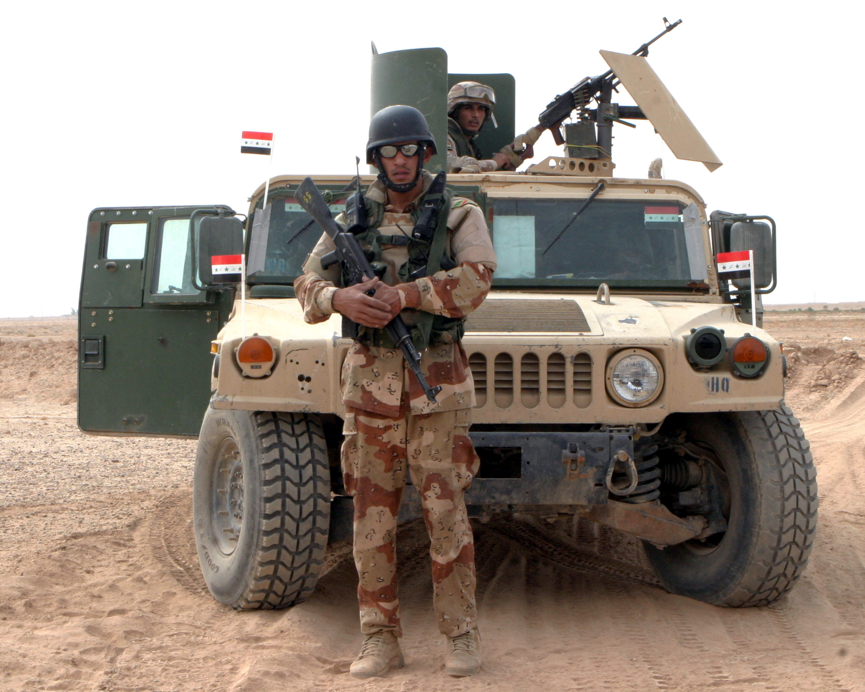 An Iraqi Soldier from 3rd Battalion, 1st Brigade, 1st Iraqi Army Division (3-1-1) provides security near Lake Thar Thar in the Al Anbar Province of Iraq, during Operation Sattar, on October 6, 2007. 3-1-1 is working with Multi-National Forces-West in support of Operation Iraqi Freedom in the Al Anbar Province of Iraq